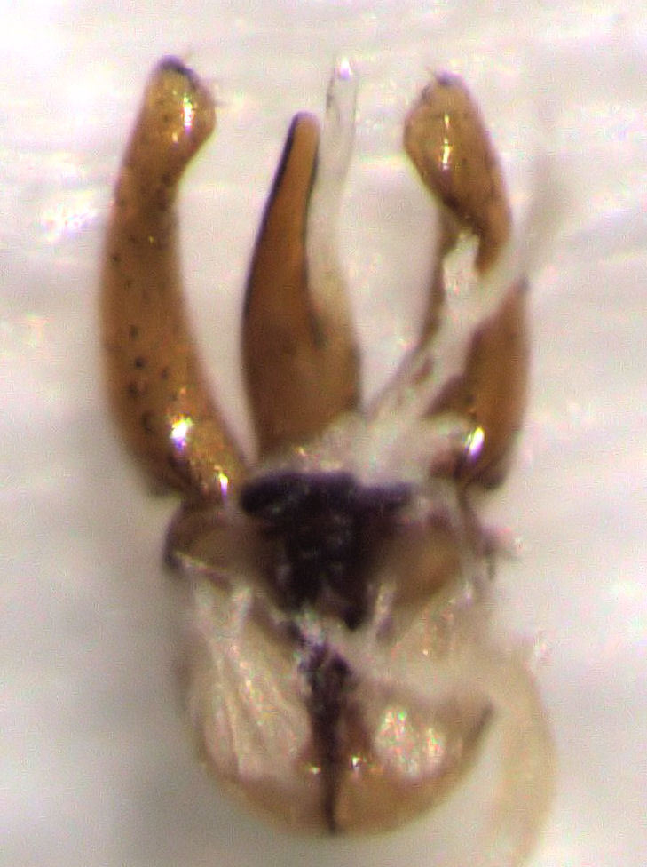 Sagola valida Broun, 1921 (Aedeagus)